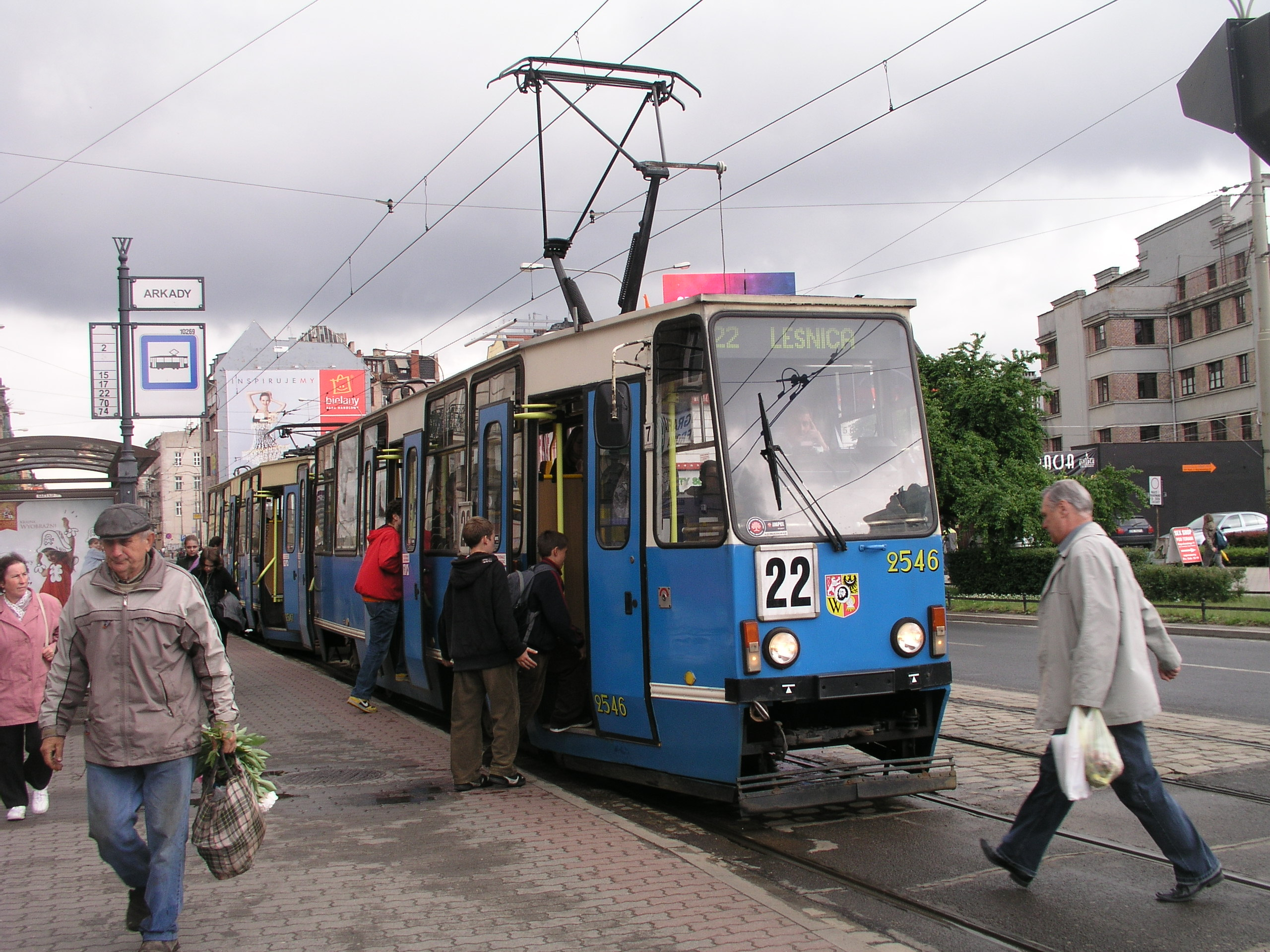 Tram line 22 at stop Arkady in Wrocław.